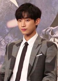 Love in the Moonlight Press Conference